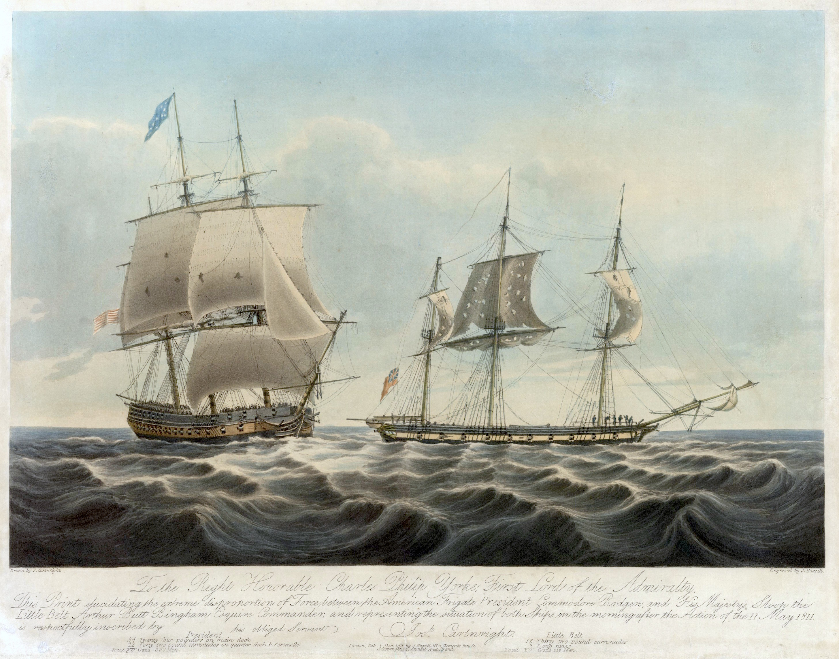 To the Right Honorable Charles Philip Yorke, First Lord of the Admiralty, This Print elucidating the extreme disproportion of Force between the American Frigate President… and His Majesty’s Sloop the Little Belt… London, Dec. 1, 1811. Drawn by Joseph Cartwright / Engraved by John Hassell